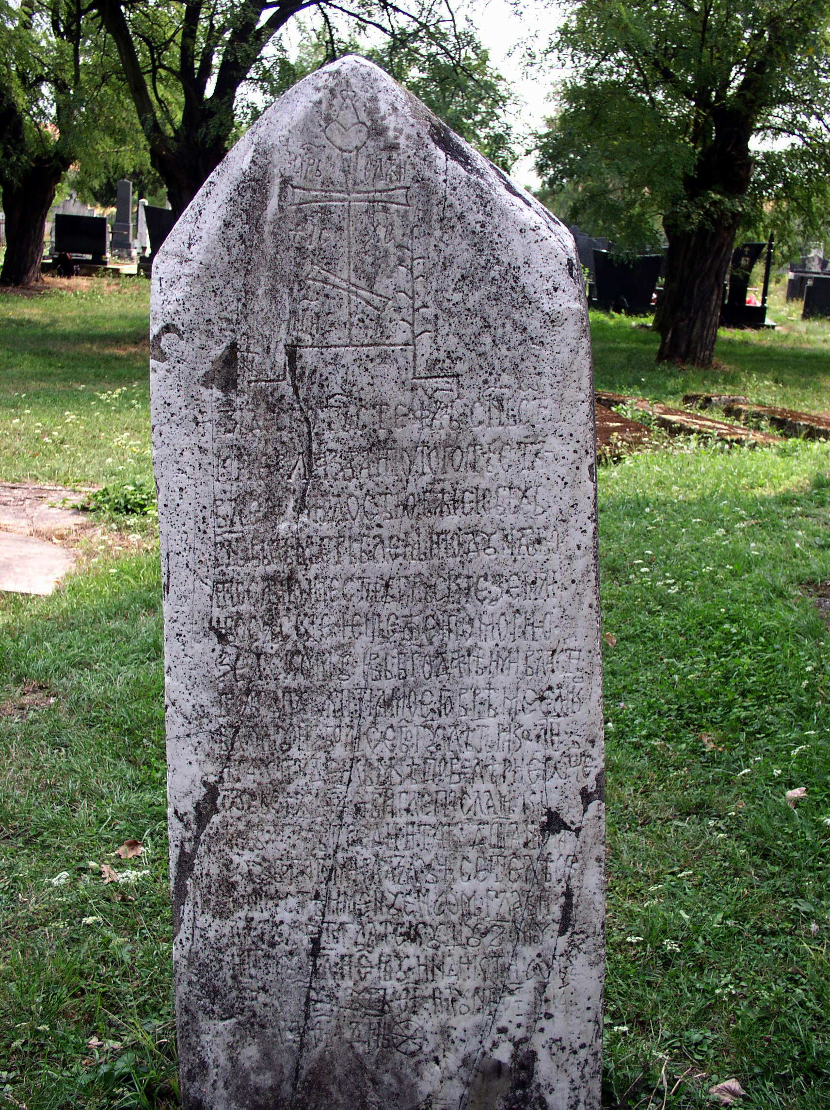 Monument near church in village Crkvine, dedicated to Stefan Lazarevic who died there